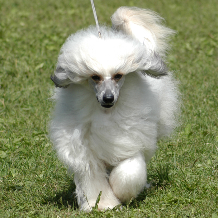 Zucci Princess Royal - "Tia" (01.11.2003 - 20.08.2012) a Chinese Crested Dog - Powderpuff